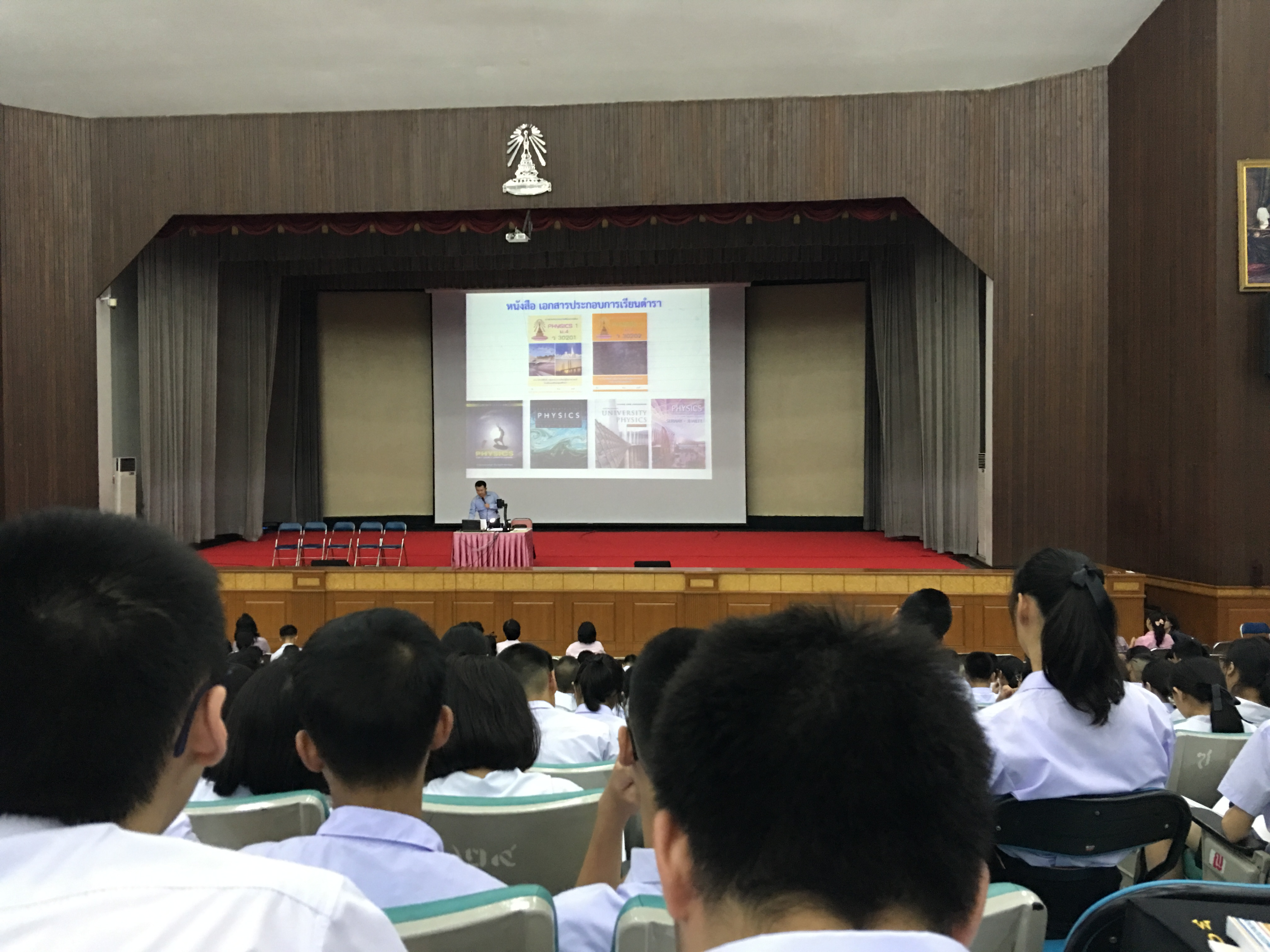 Triam Udom Suksa School's Auditorium 10 May 2016